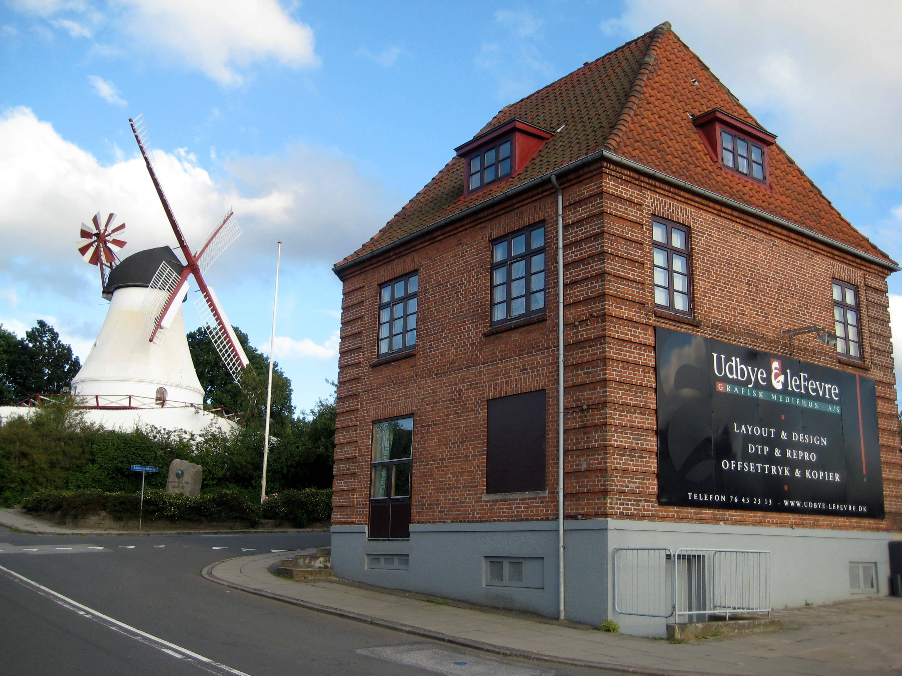 Windmill at Vejle, Denmark. Windmill built on the slopes of the hills to the south, which, visible from almost everywhere in town, is a symbol of the town.